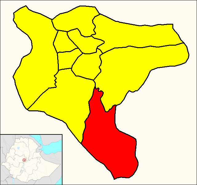 Map of the district (subcity) of Akaky Kaliti (shown in red) within the city of Addis Ababa (yellow).